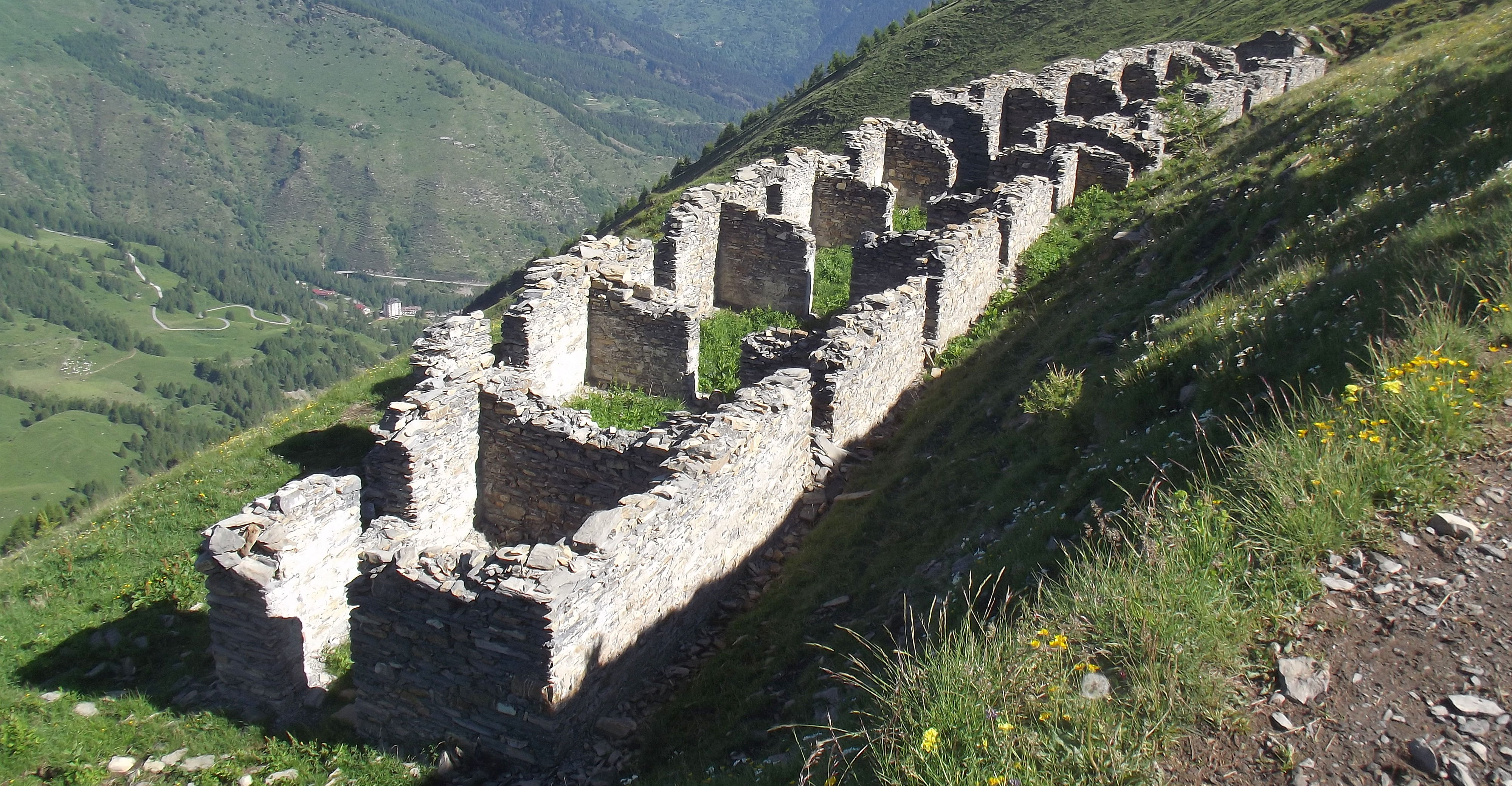 PassoFrontè (IM, Italy): old barrak ruins